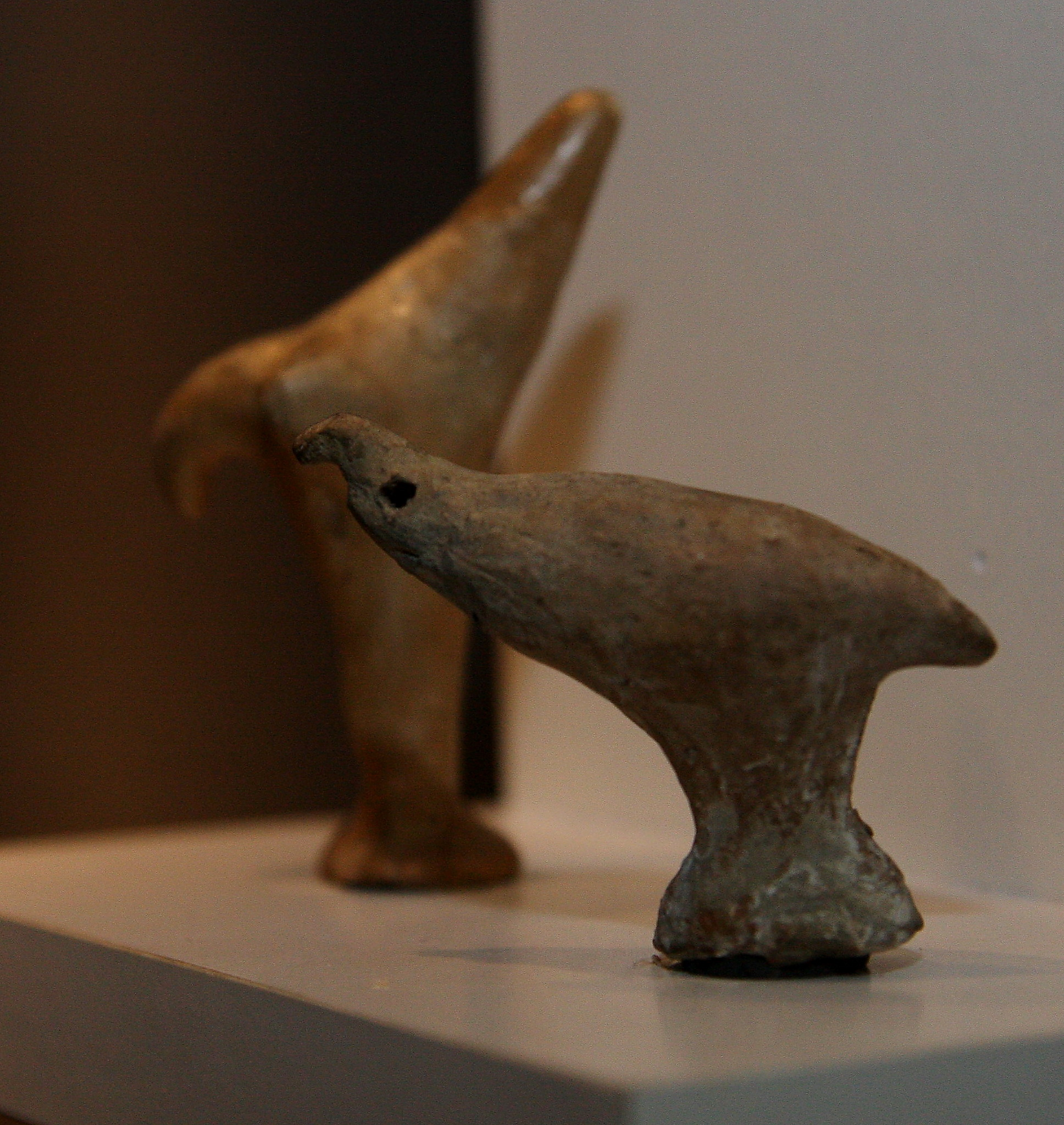 Cucuteni Bird Goddess. Piatra Neamt Museum.